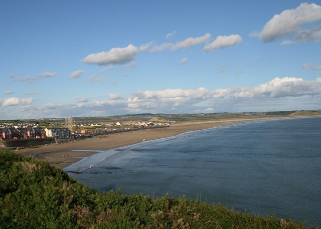 Tramore Beach, Tra Mhor is its Irish name Co,Waterford, Ireland. The beach at Tramore as seen from the Doneraile walk.